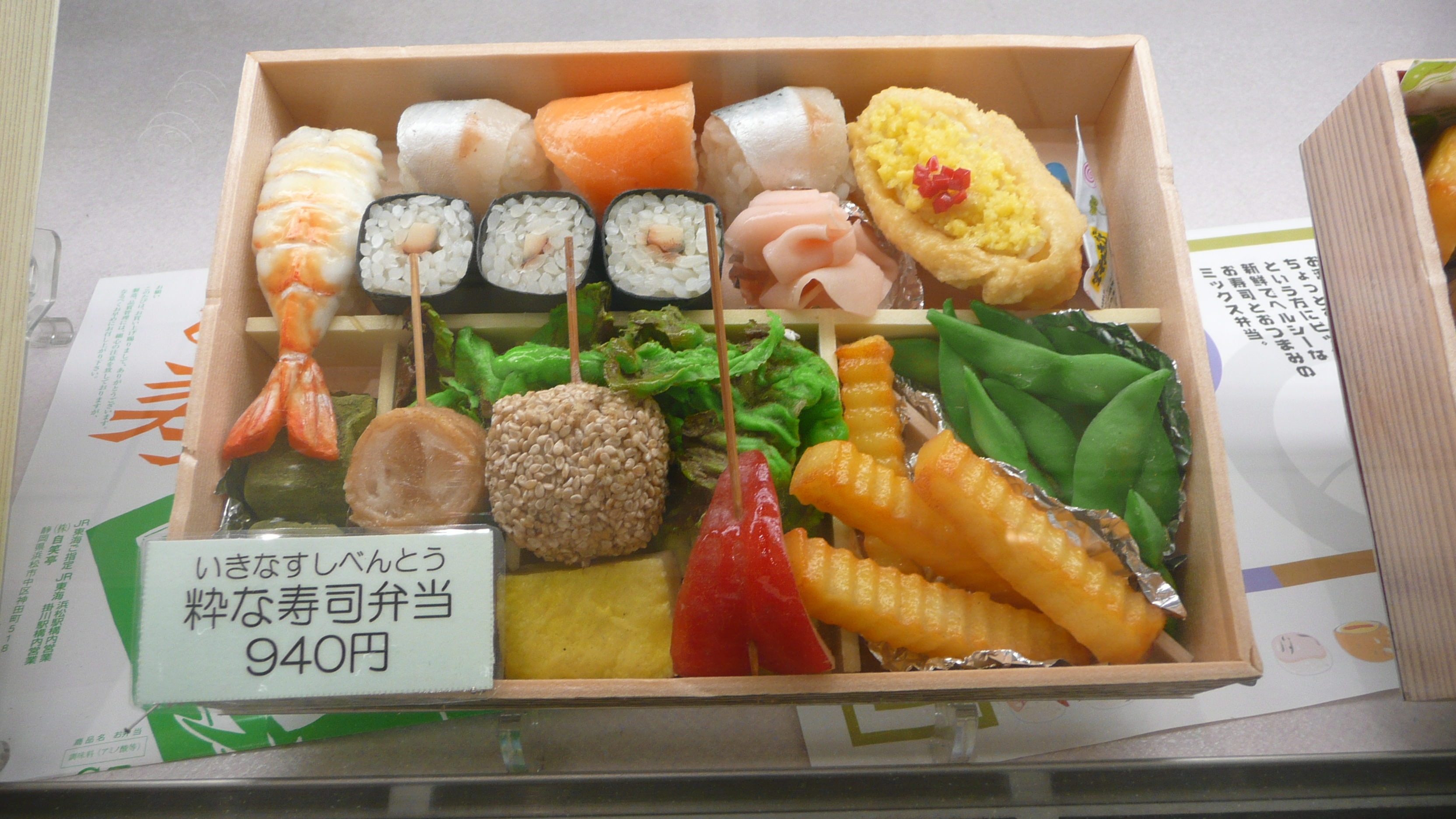 Sushi bento at the JR station Hamamatsu, Japan